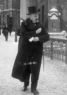 Swedish Prime Minister Hjalmar Hammarskjöld on his way from the chancery building (in background) to the Parliament in March 1917.